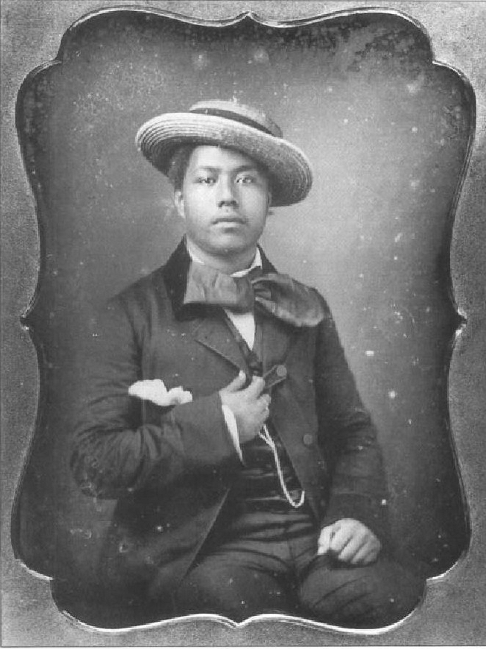 A daguerreotype of a young David Kalakaua at the age of 14.